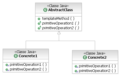 Analysis of the class diagram this design pattern TemplateMethod.